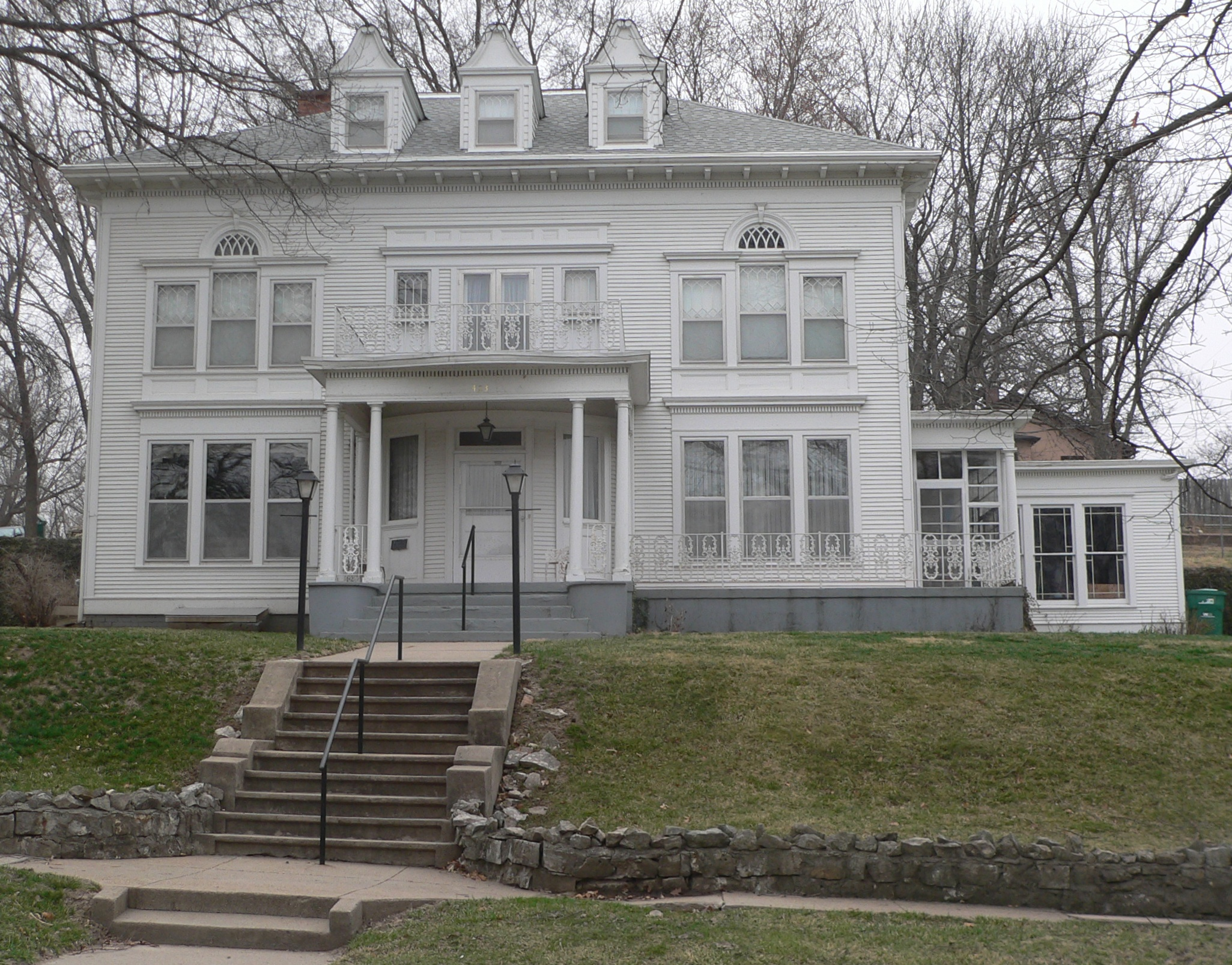 Paul Gering house, located at 423 N. 6th Street in Plattsmouth, Nebraska; seen from the west.